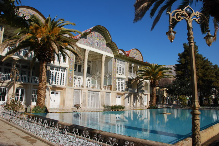 Ghavam—Qavam Garden (house) and Eram Garden pool, Shiraz, Iran.